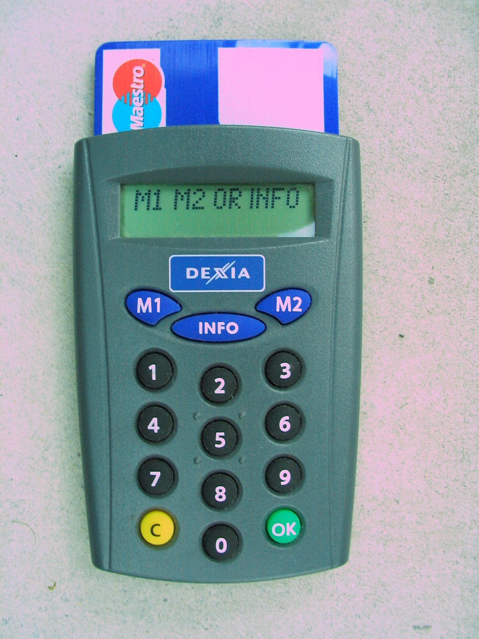 Digipass (Challenge–response authentication card reader - used in Belgium in the 2000's)